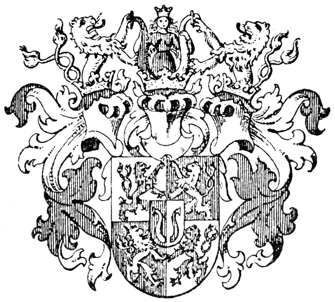 Coat of arms of the aristocratic family Hodický of Hodice.